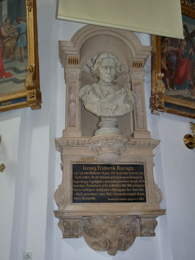 Kip Friderika Barage v cerkvi sv. Jurija v Dobrniču